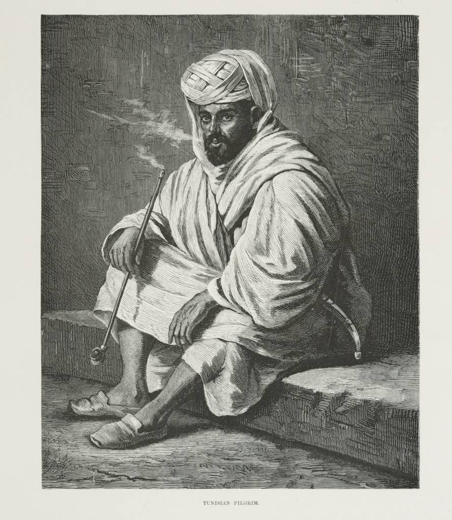 A man wearing a turban and sitting on a stoop while smoking a long pipe.